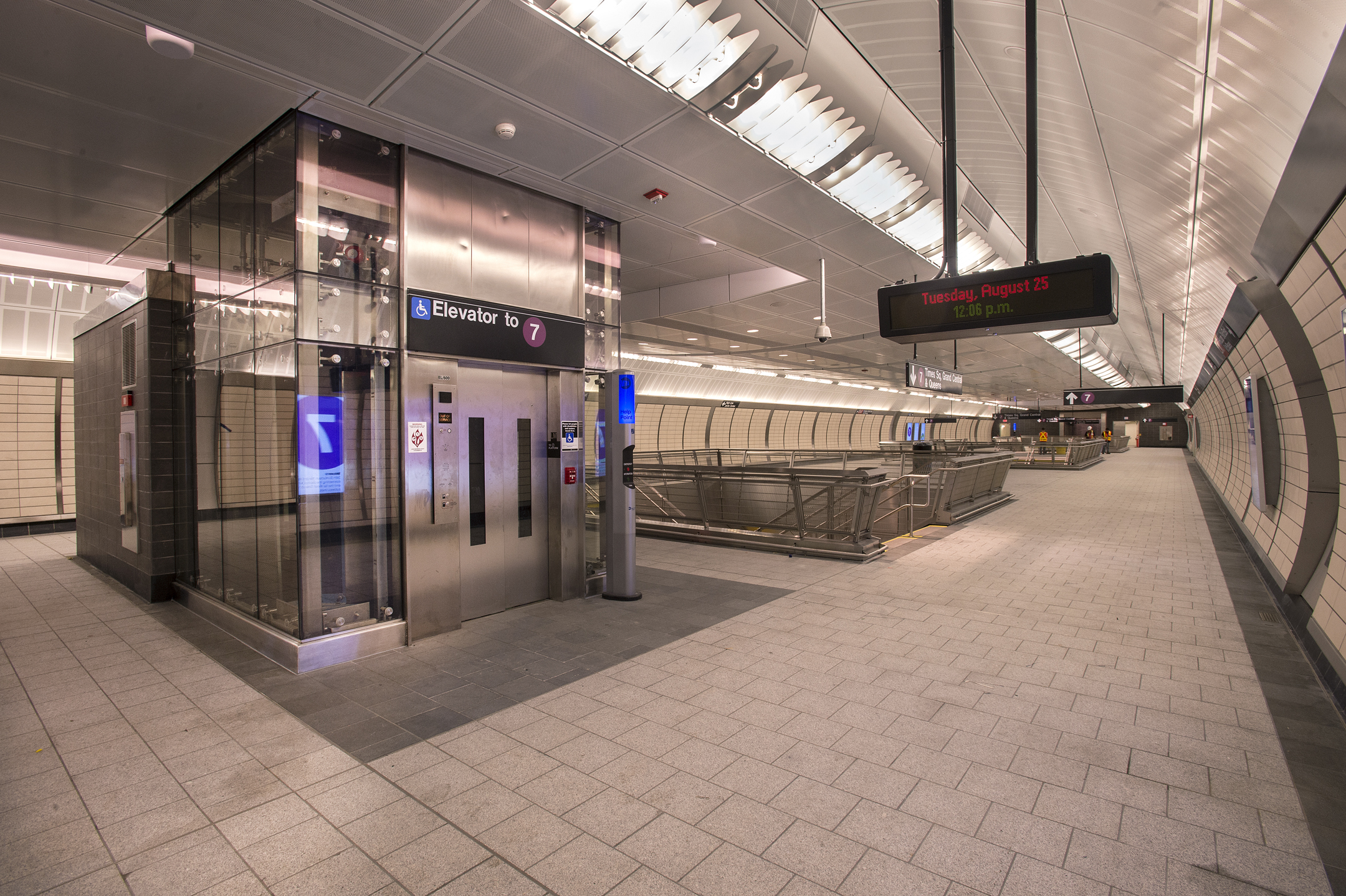 34 St-Hudson Yards Station